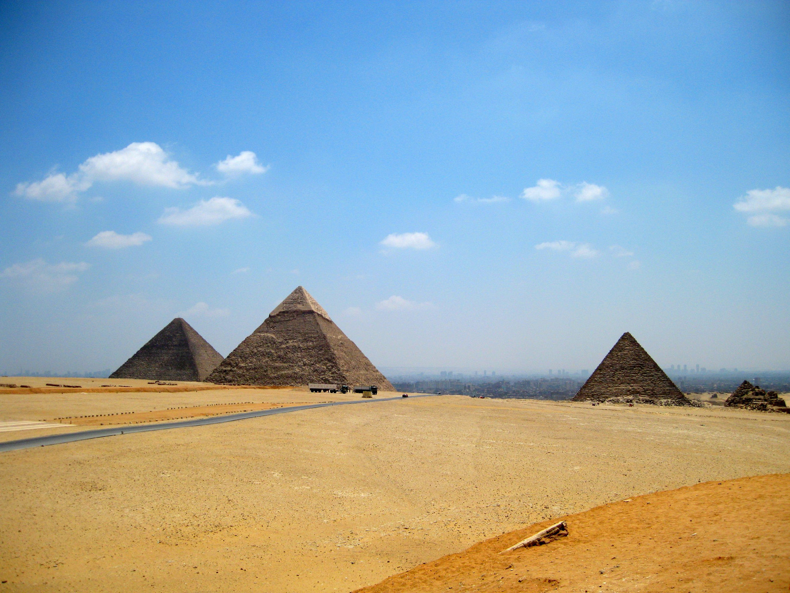 The Pyramids of Giza, Cairo, Egypt